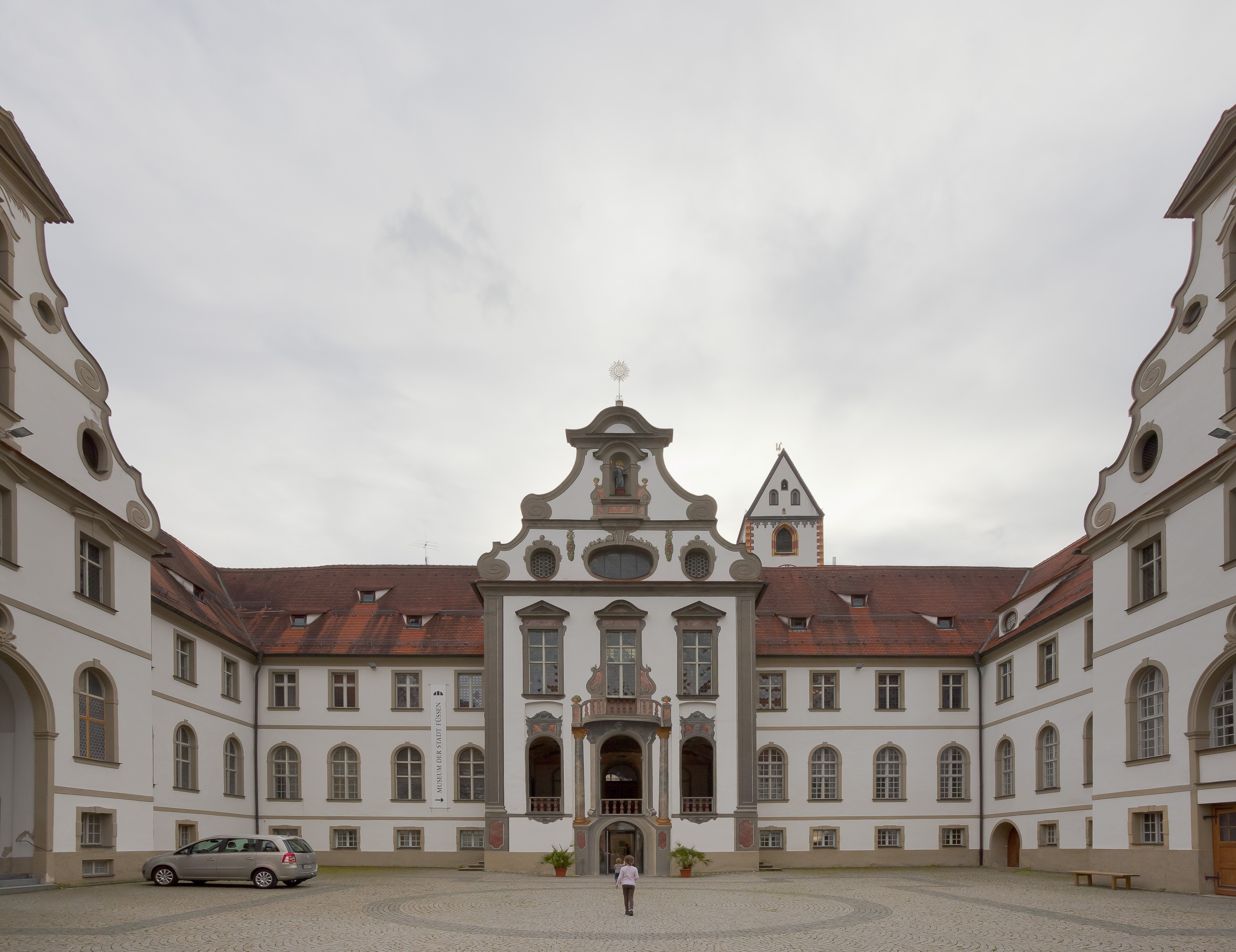 St. Mang Basilica monastery, Füssen, Germany